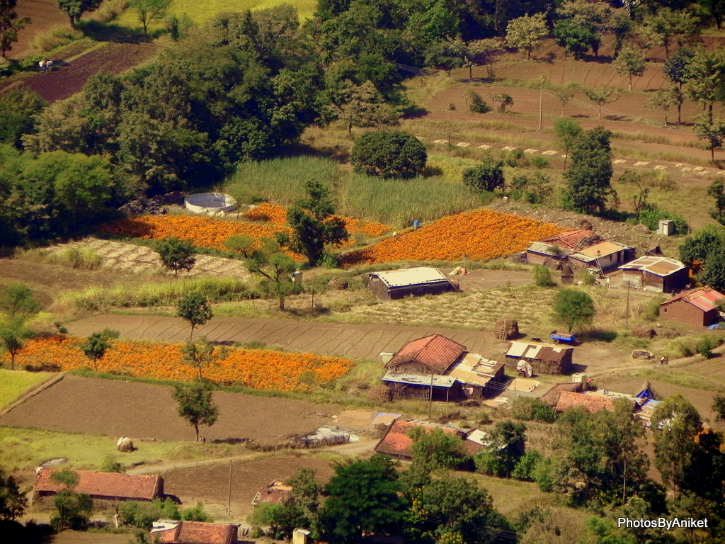 Marigold (Tagetes) fields in Maharashtra, India. Marigolds are used in preparing puja maala (garlands for offerings at temples, rituals and weddings).